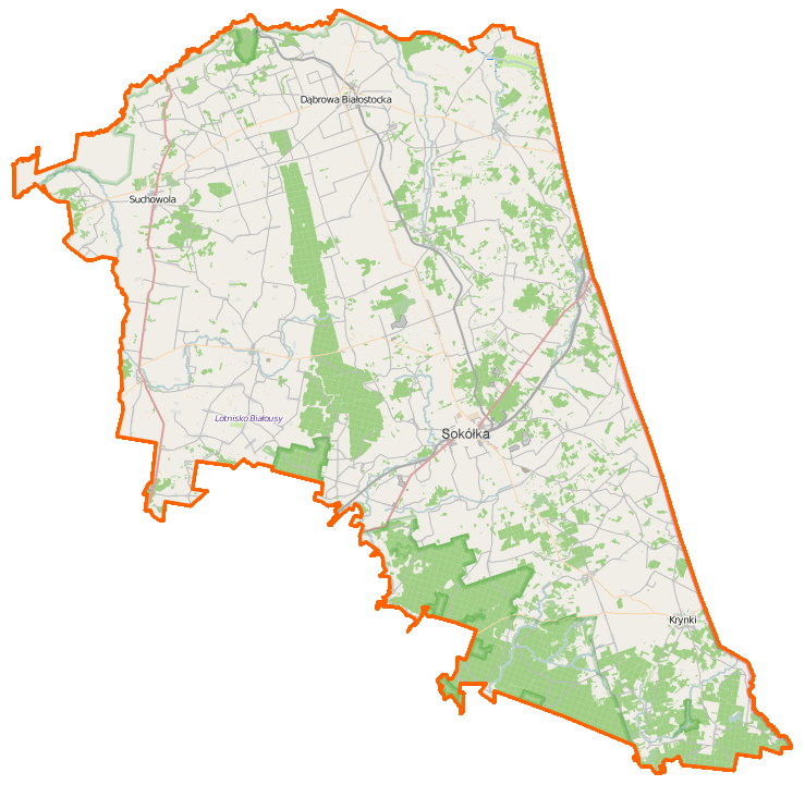 Map of Powiat sokólski, Poland This map of Powiat sokólski was created from OpenStreetMap project data, collected by the community. This map may be incomplete, and may contain errors. Don't rely solely on it for navigation.